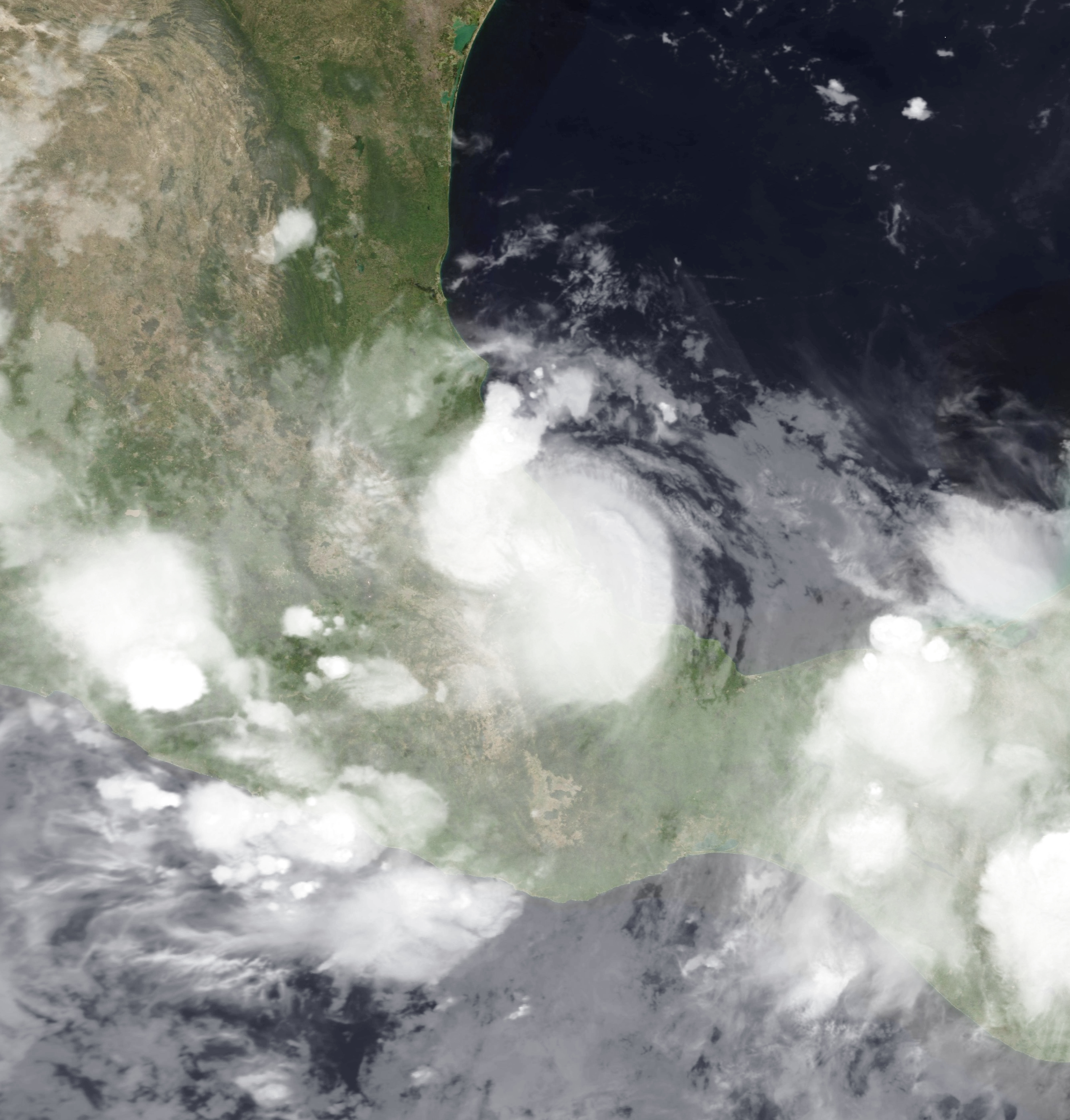 Tropical Storm Jose shortly after landfall early on August 23